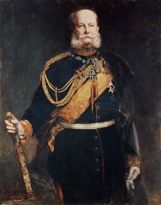 Kaiser Wilhelm I of Germany by Gottlieb Biermann